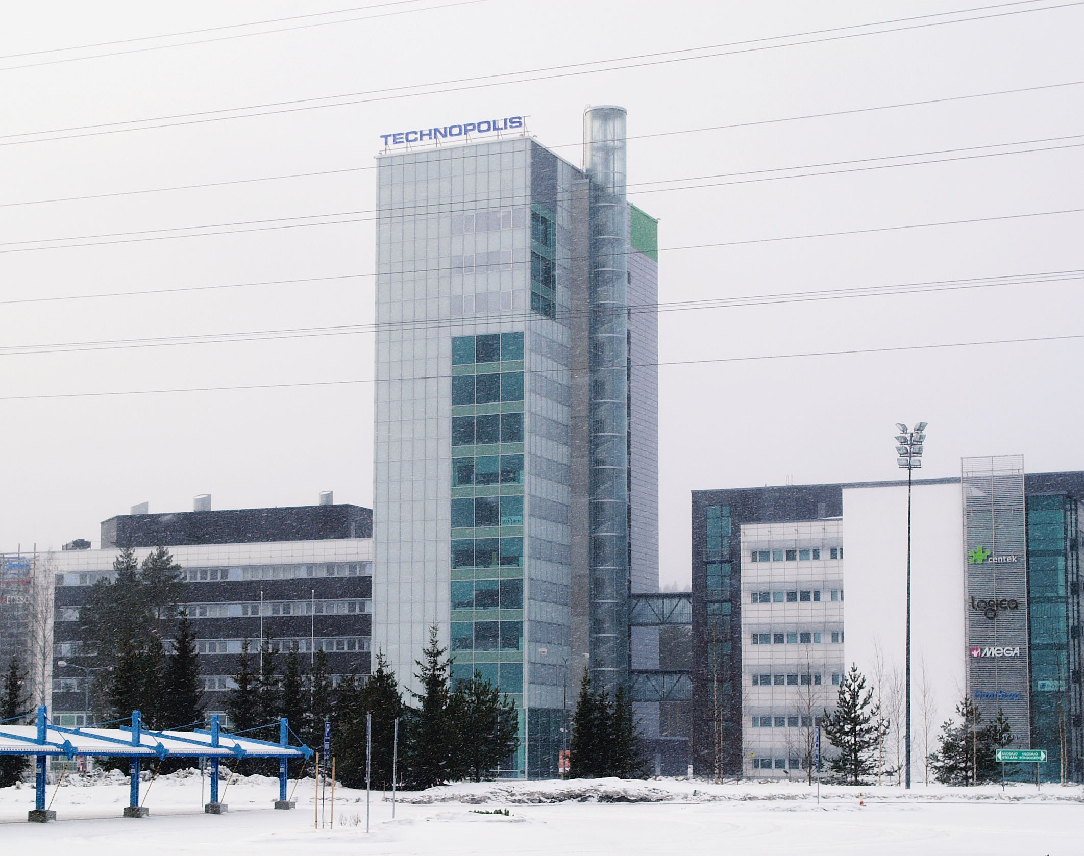 Microtower, tallest building in Kuopio (65m). Microteknia 3 in left, Microteknia 2 in right. Part of Technology Centre Teknia which was aquired in Spring 2008 by Technopolis PLC Location: Savilahti, Kuopio, Finland